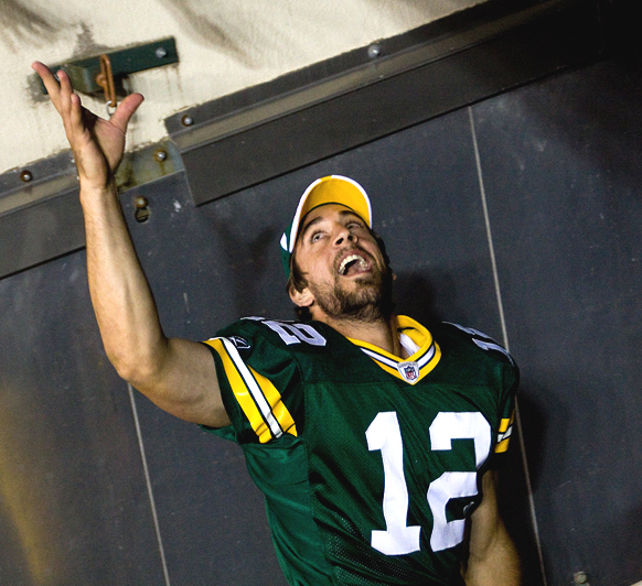 Green Bay Packers starting quarterback Aaron Rodgers runs off Lambeau Field into the tunnel amid a standing ovation.